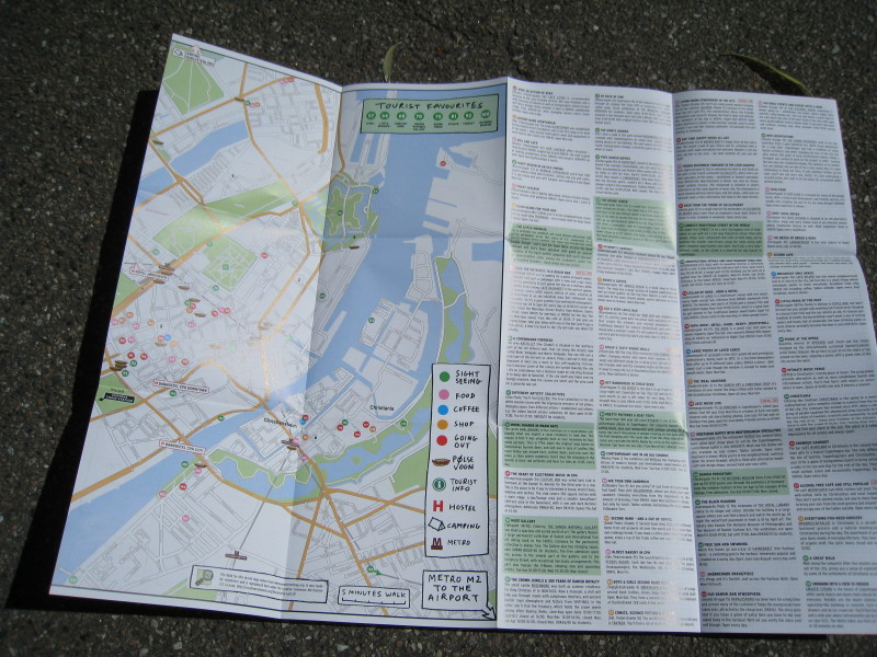 One side of the USE-IT paper map of Copenhagen, based on OpenStreetMap data